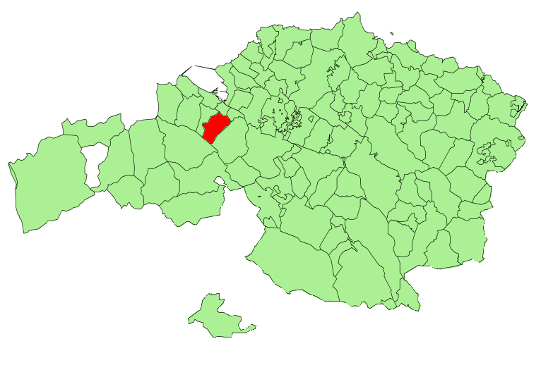 Trapagaran municipality in the province of Biscay